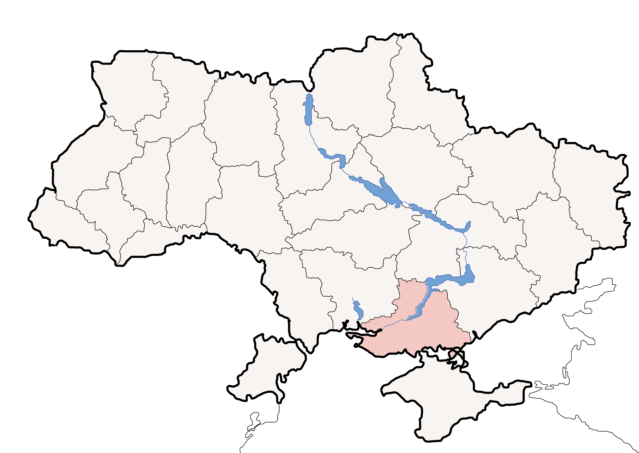 Political map of Ukraine, highlighting Kherson Oblast